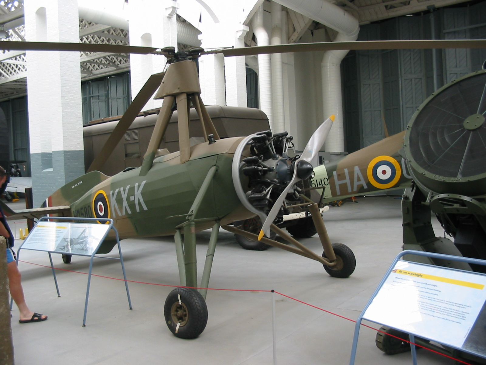 Cierva C.30A Rota I autogiro (HM580) at the Imperial War Museum, Duxford